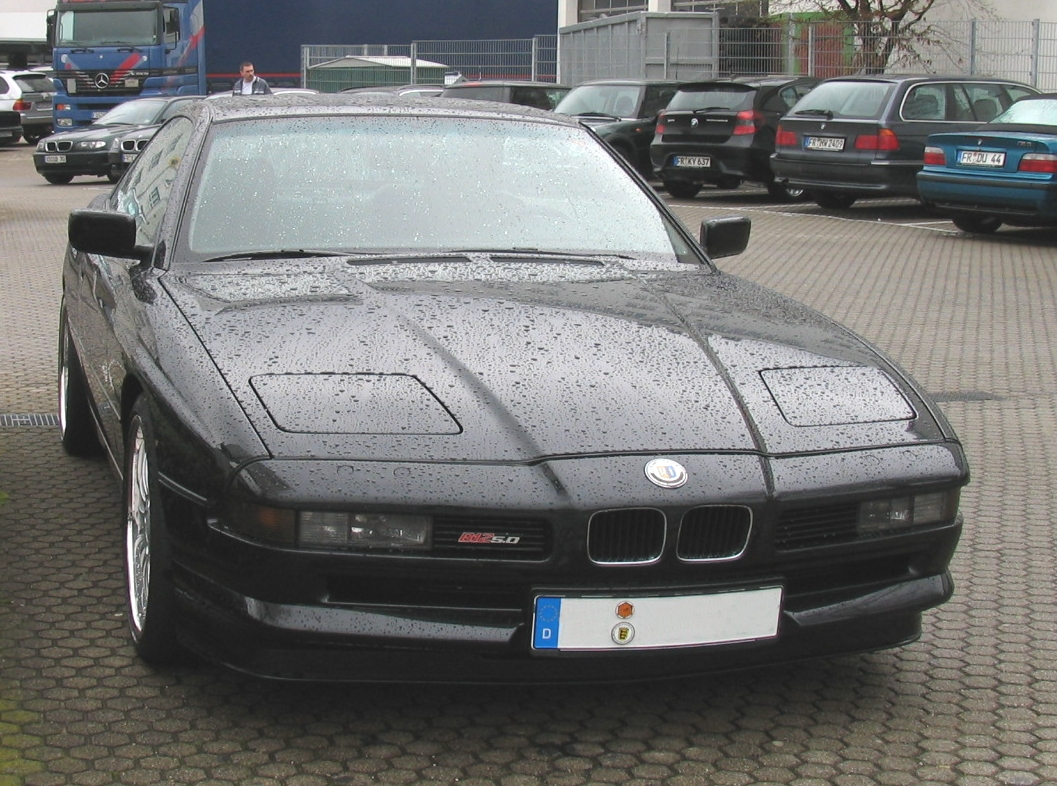 Beschreibung: BMW 850 Alpina B12 Quelle: selbst aufgenommen & bearbeitet Fotograf: CrazyD, 12. April 2006 Lizenzstatus: GNU FDL Description: BMW 850 Alpina B12 Source: photo was taken and modified by my self Photographer: CrazyD, 11 April 2006 Licence: GNU FDL